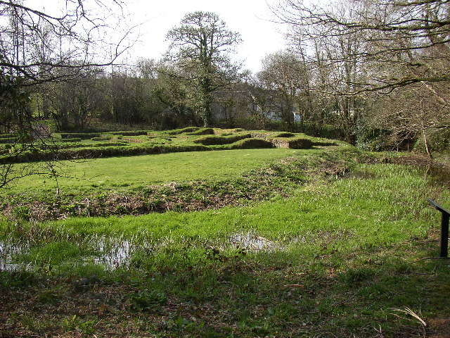 The ruins of Penhallam Moated Manor House. Penhallam is now looked after by English Heritage. It is a beautiful spot in a wooded valley. The ruins are of a rare Cornish moated manor house built in the 13th Century. It fell into ruin by the mid 14th Century and lay undiscovered until the 1960s when the land was being cleared for conifer forestry.